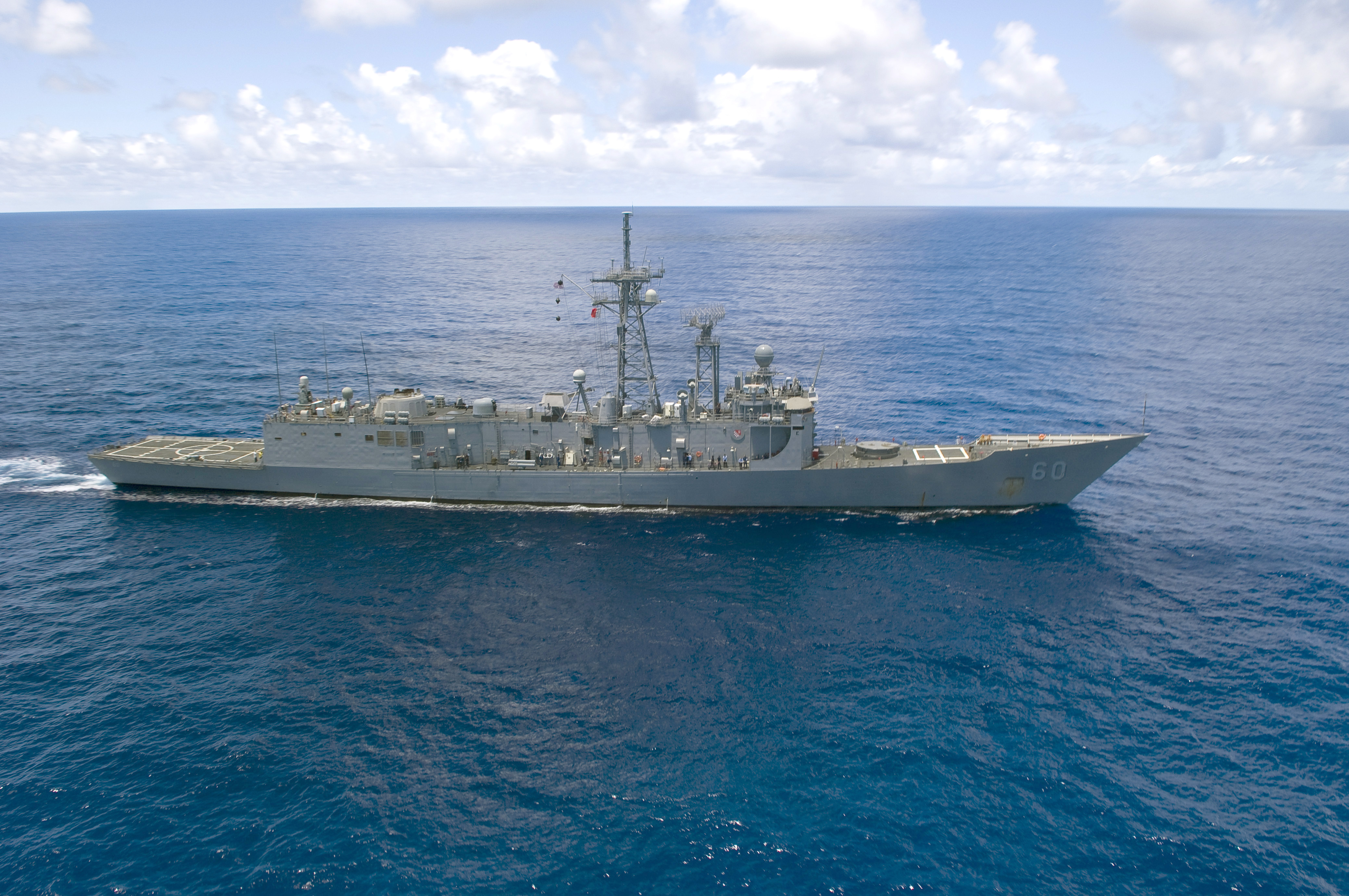 080713-N-7949W-084 PACIFIC OCEAN (July 13, 2008) The guided-missile frigate USS Rodney M. Davis (FFG 60) steams in the operating area of Rim of the Pacific (RIMPAC) 2008. RIMPAC is the world's largest multinational exercise scheduled biennially by the U.S. Pacific Fleet. Participants include the United States, Australia, Canada, Chile, Japan, the Netherlands, Peru, Republic of Korea, Singapore, and the United Kingdom. U.S. Navy photo by Mass Communication Specialist 1st Class Daniel N. Woods (Released) Uploader note: This is a good picture of this class of vessel with the missile launcher removed.